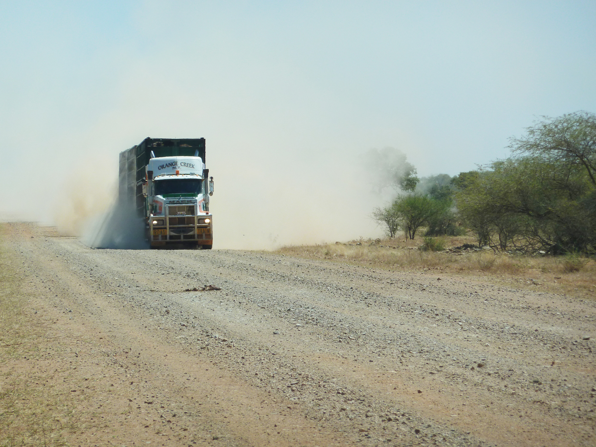 Road train on the Tanami track in 2011.